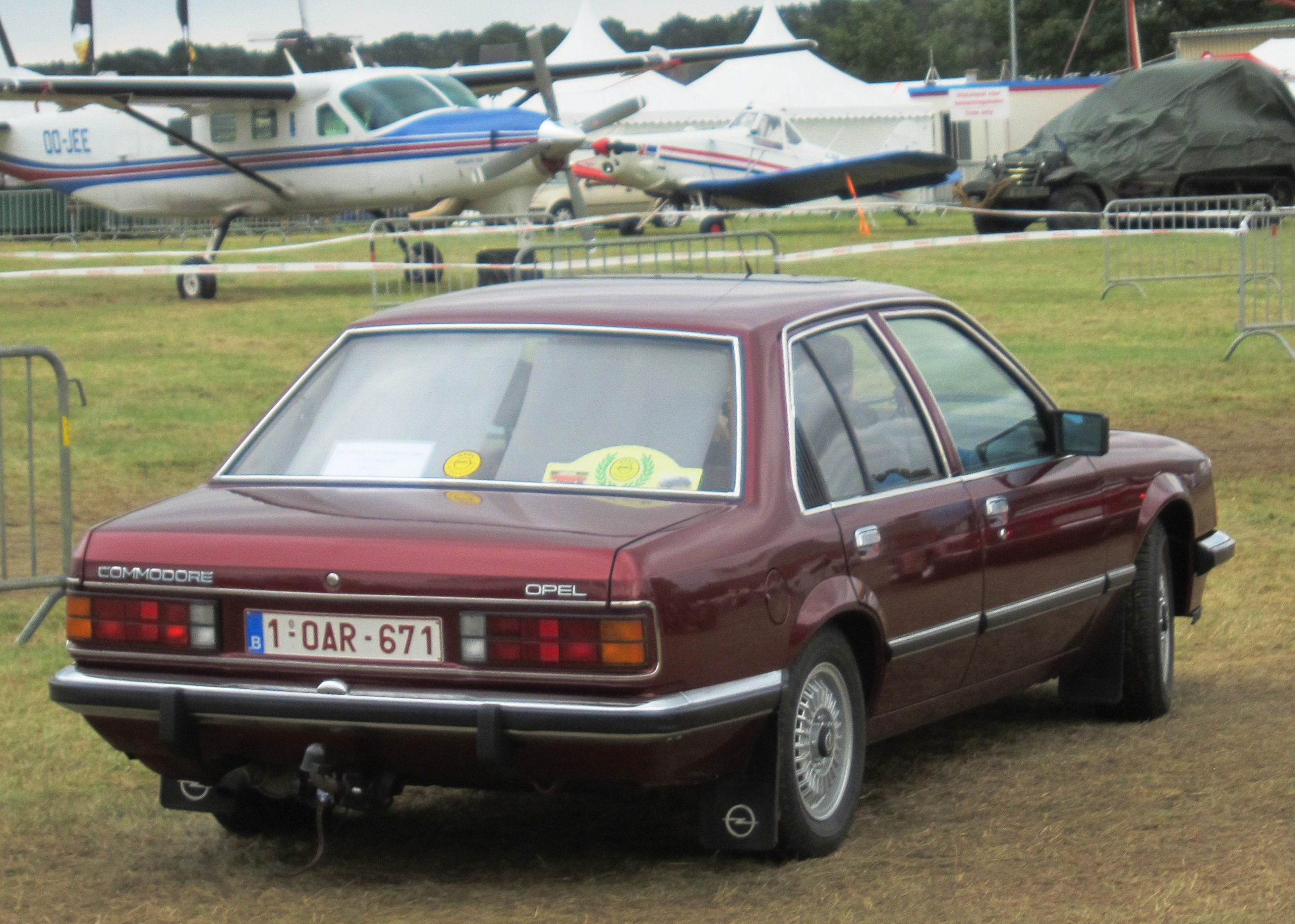 Opel Commodore C rear three quarters